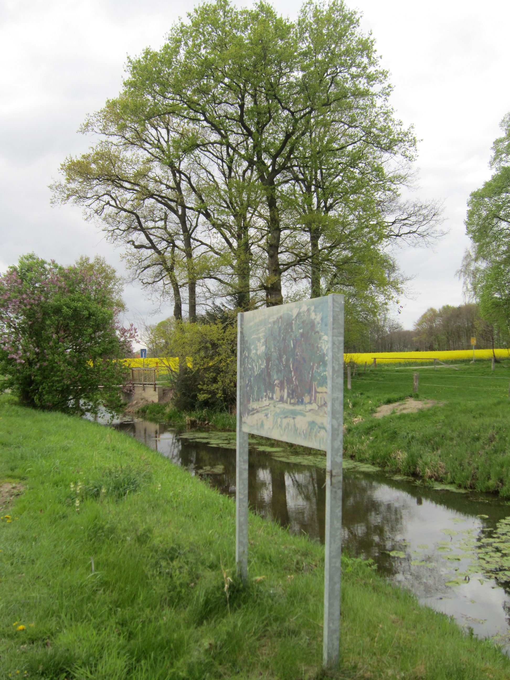 Section of the "Art Tour" for bicyclists in the Artland (Lower Saxony)